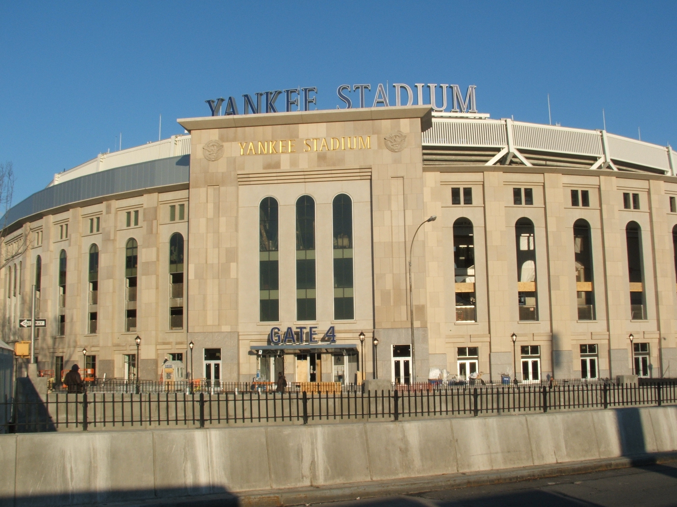 Latest Image on the new Yankee Stadium.